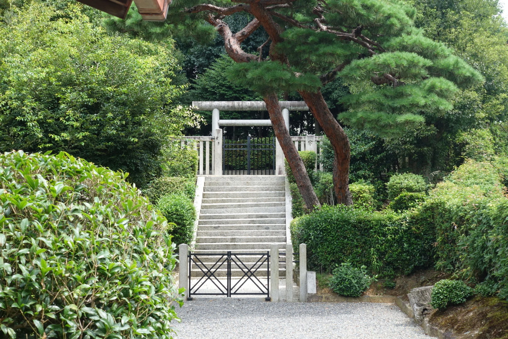 "Uji no Misasagi" or "Ujiryo" (Tombs of Uji) No.1 in Uji, Kyoto prefecture, Japan